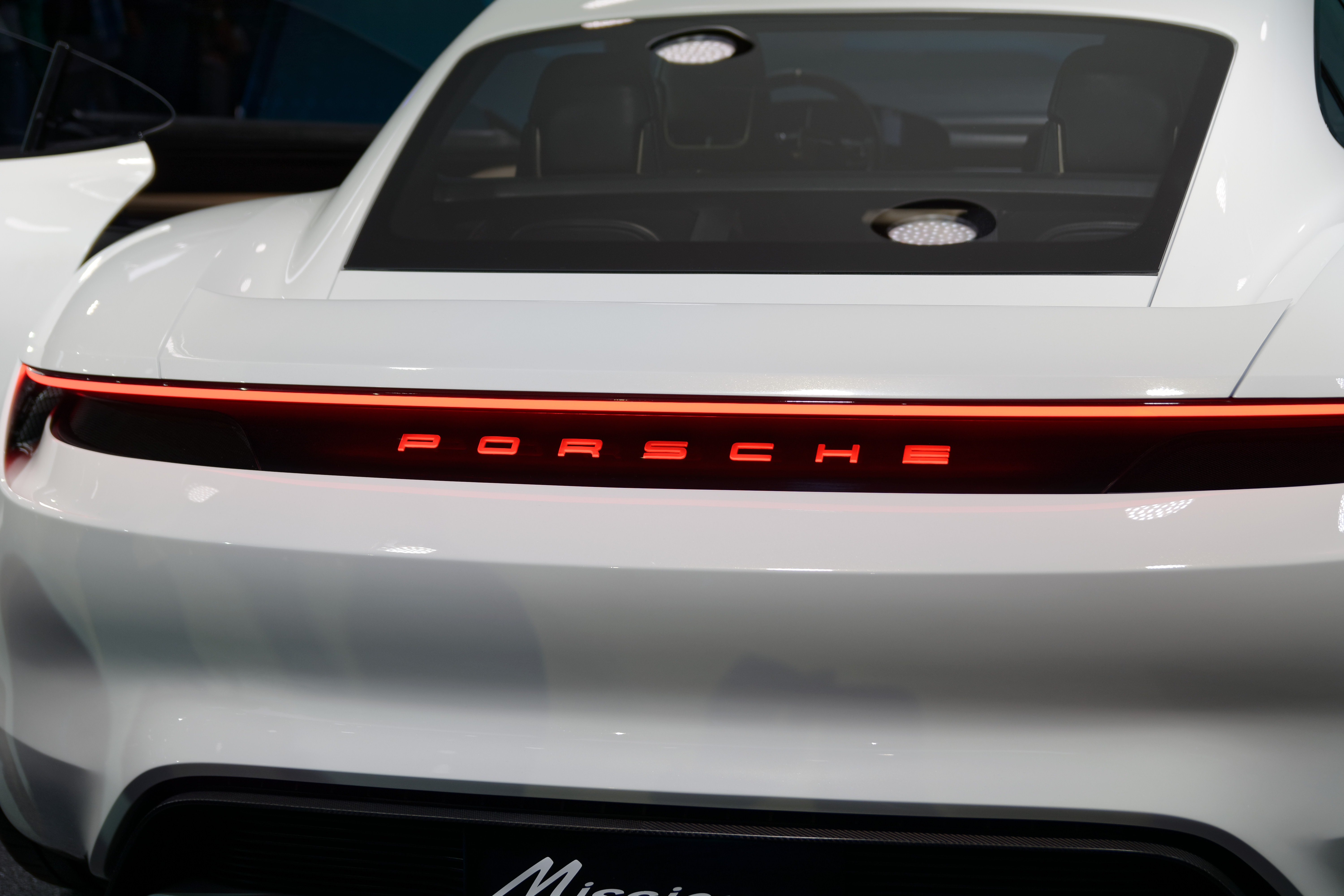 The Porsche Mission E concept car at the IAA 2015 in Frankfurt.